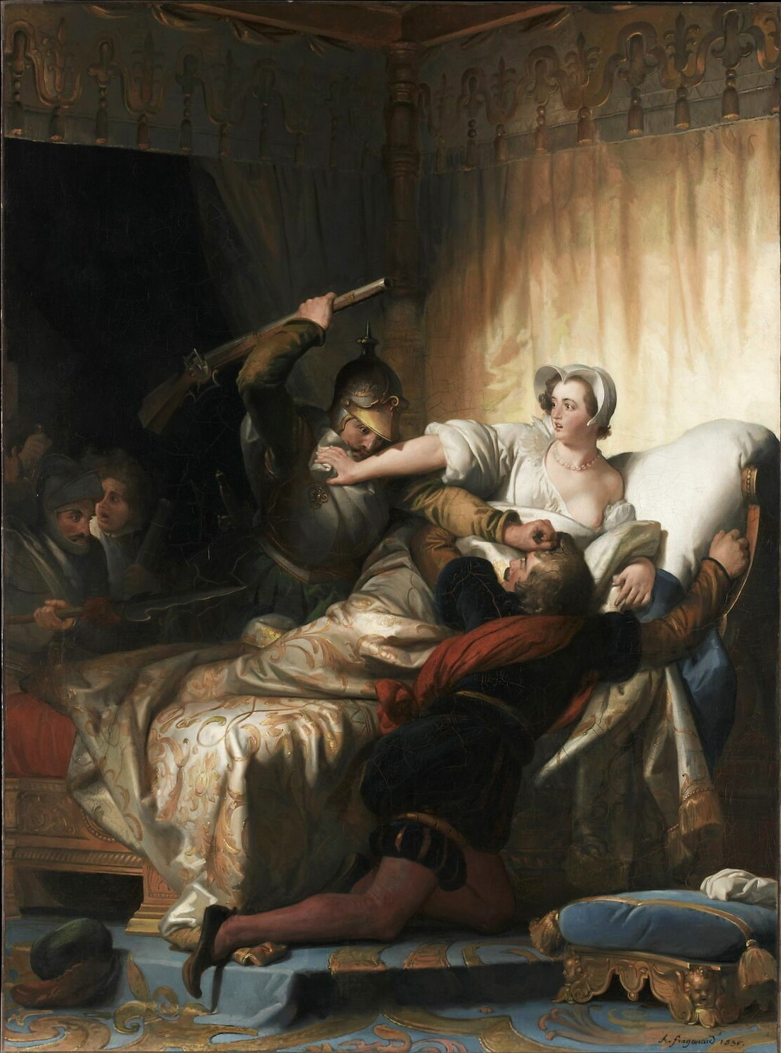 Scene in the bedroom of Marguerite de Valois during the St. Bartholomew's Day massacre.